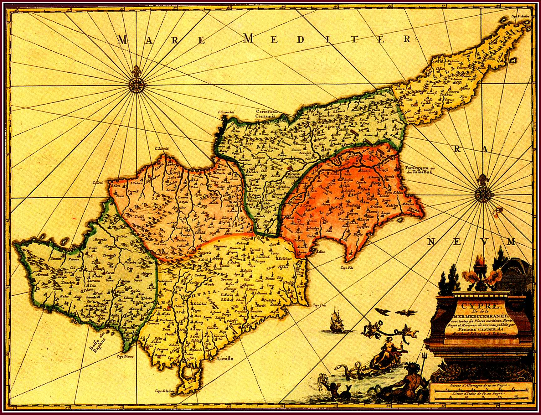 Map of Cyprus Original Map Title: Cypre Ile de la Mer Mediterranee Original Size: 286 x 376 mm